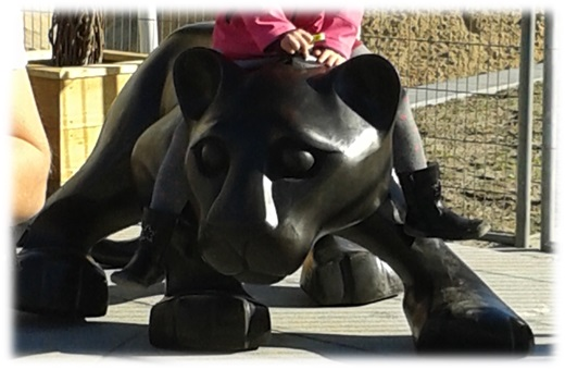 A bronze statue created by Patrick Beverloo